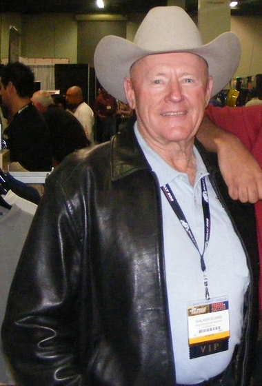 Off road driver "The Legend" Walker Evans poses with Crew 35 Baja Project leader Steven Harrell at the 2008 Off Road Impact Show